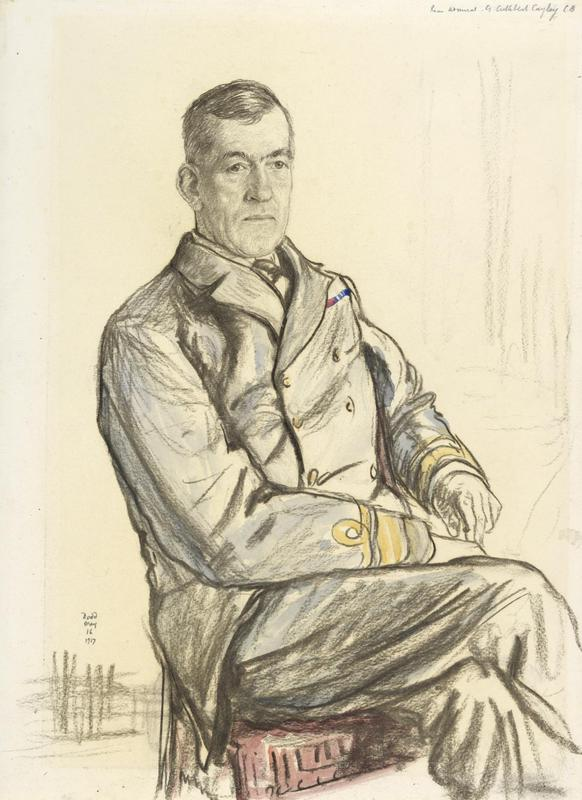 Rear-admiral George Cuthbert Cayley Cb image: a three quarter length portrait of Rear Admiral George Cayley in uniform, seated and with his legs crossed.